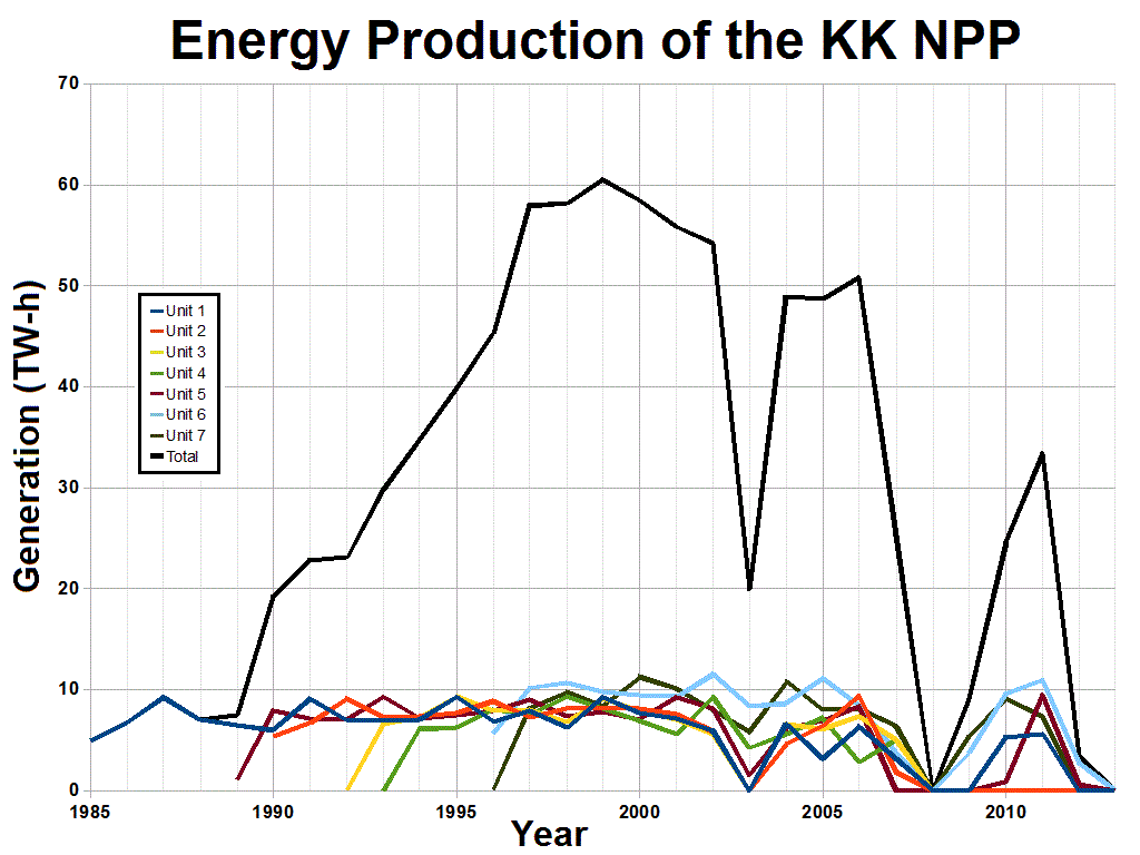 Electricity production of the various units of the Kashiwazaki-Kariwa Nuclear Power Plant since its commissioning. No output since 2012.